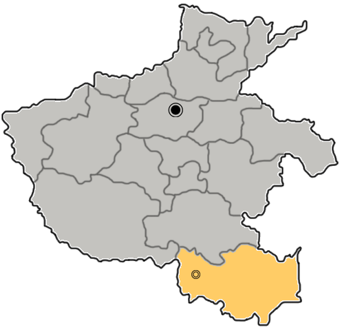 The prefecture-level city of Xinyang is highlighted on this map of Henan province, People's Republic of China.